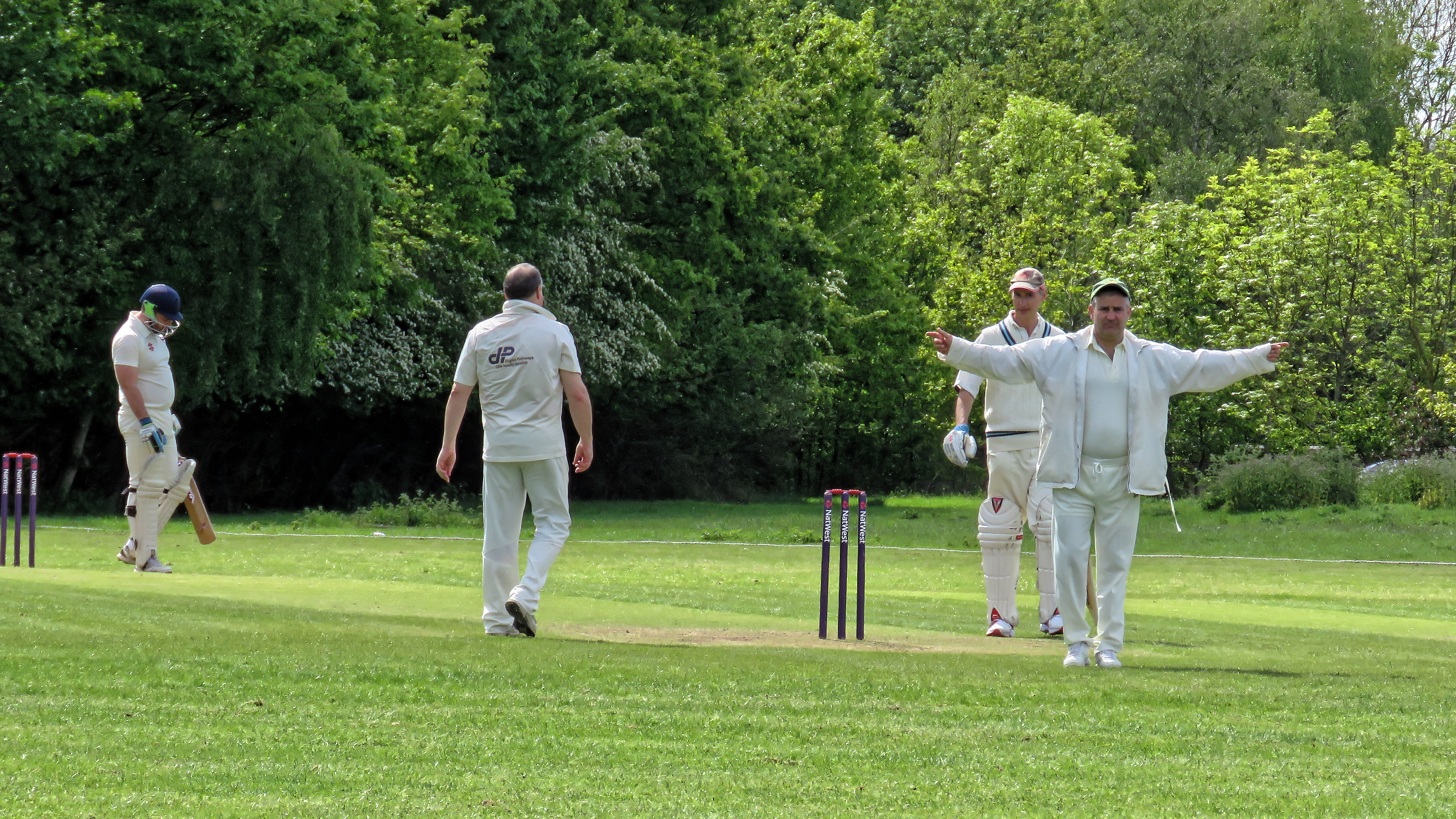 A 2019 Sunday public friendly cricket match between Epping Foresters Cricket Club Sunday 1st XI and Abridge Cricket Club Sunday 1st XI (batting) at Epping/Epping Upland Essex, England.Mobile device view: Wikimedia (as at 2019) makes it difficult to immediately view photo groups related to this image. To see its most relevant allied photos, click on Epping Foresters Cricket Club, Abridge Cricket Club, Minor cricket clubs of Essex, and this uploader's Cricket photos. You can add a beta click-through 'categories' button to the very bottom of photo-pages you view by going to settings... three-bar icon top left.Desktop view: Wikimedia (as at 2019) makes it difficult to immediately view the helpful category links where you can find images related to this one in a variety of ways; for these go to the very bottom of the page. This image is one of a series of date and/or subject allied consecutive photographs kept in progression or location by file name number and/or time marking.Camera: Canon PowerShot SX60 HSSoftware: File lens-corrected, optimized, perhaps cropped, with DxO PhotoLab 2 Elite, and likely further optimized with Adobe Photoshop CS2.